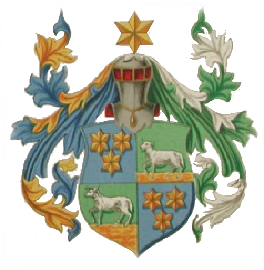 Family crest Van Berckel